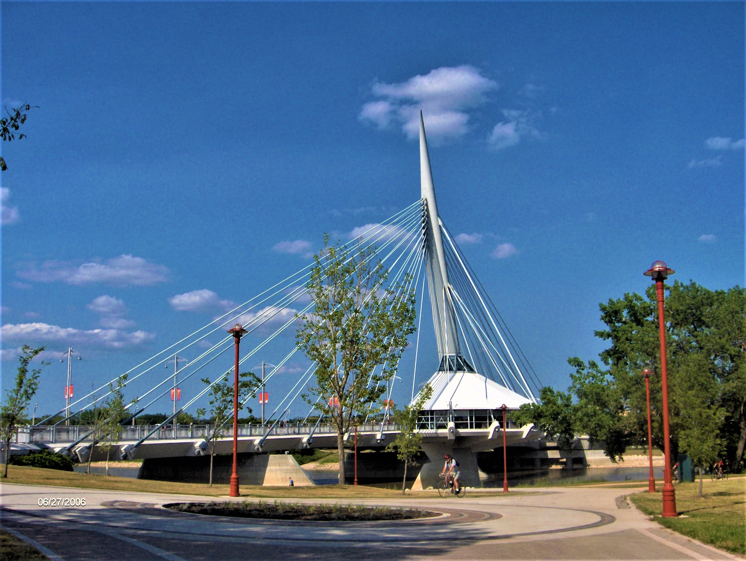 Esplanade Riel Pedestrian Bridge- Winnipeg- Manitoba-Canada